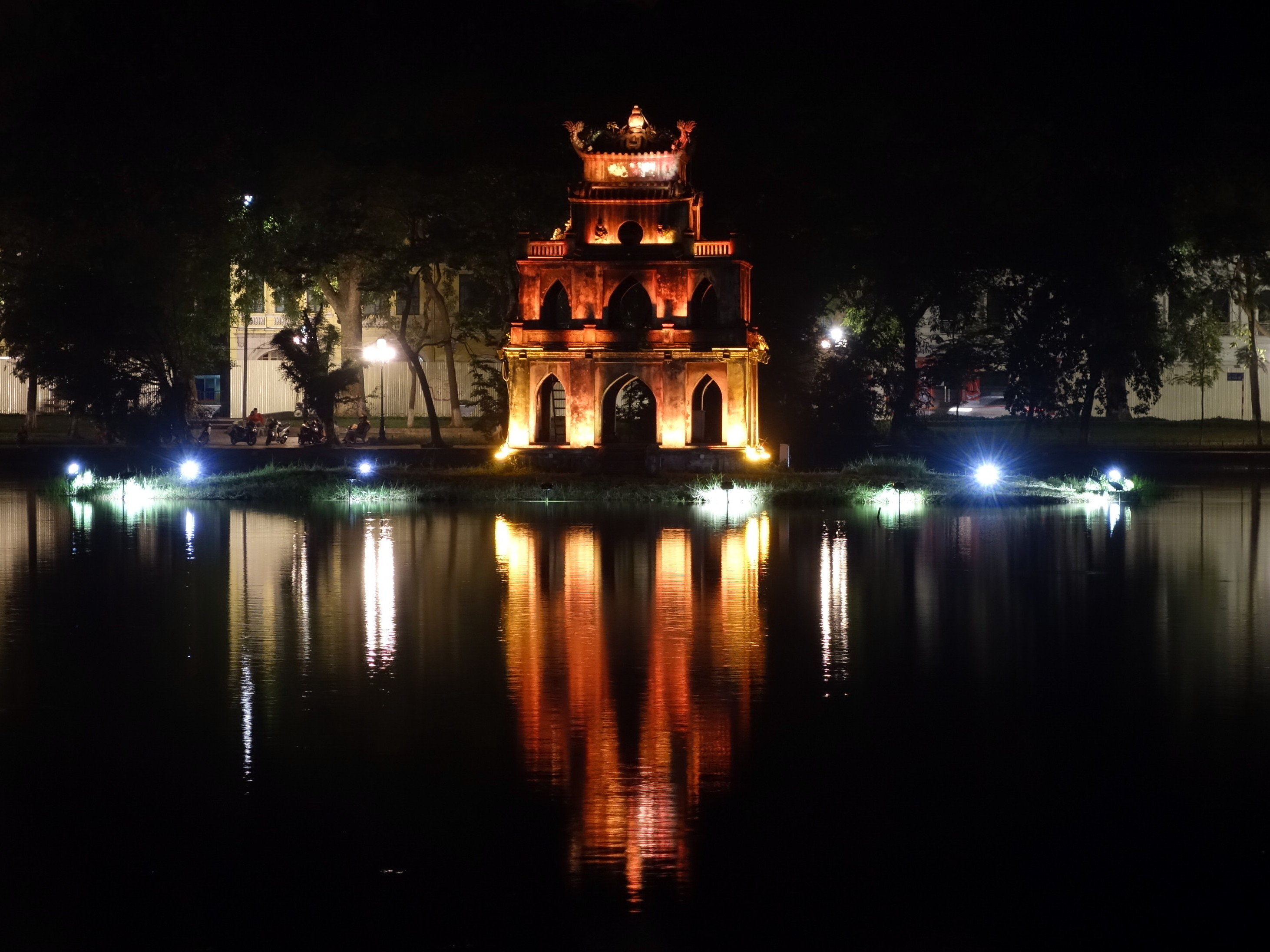 Turtle Tower in Hoan Kiem Lake, Hanoi, Vietnam